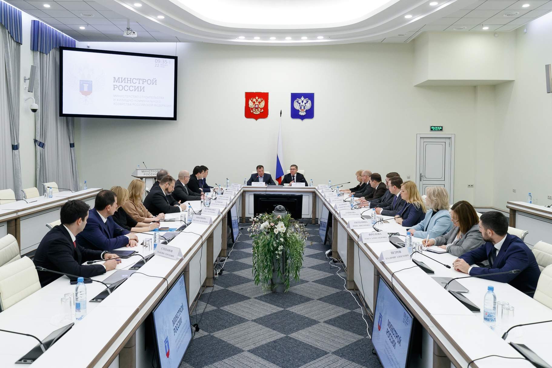 Marat Khusnullin held the first work meeting in Minstroy